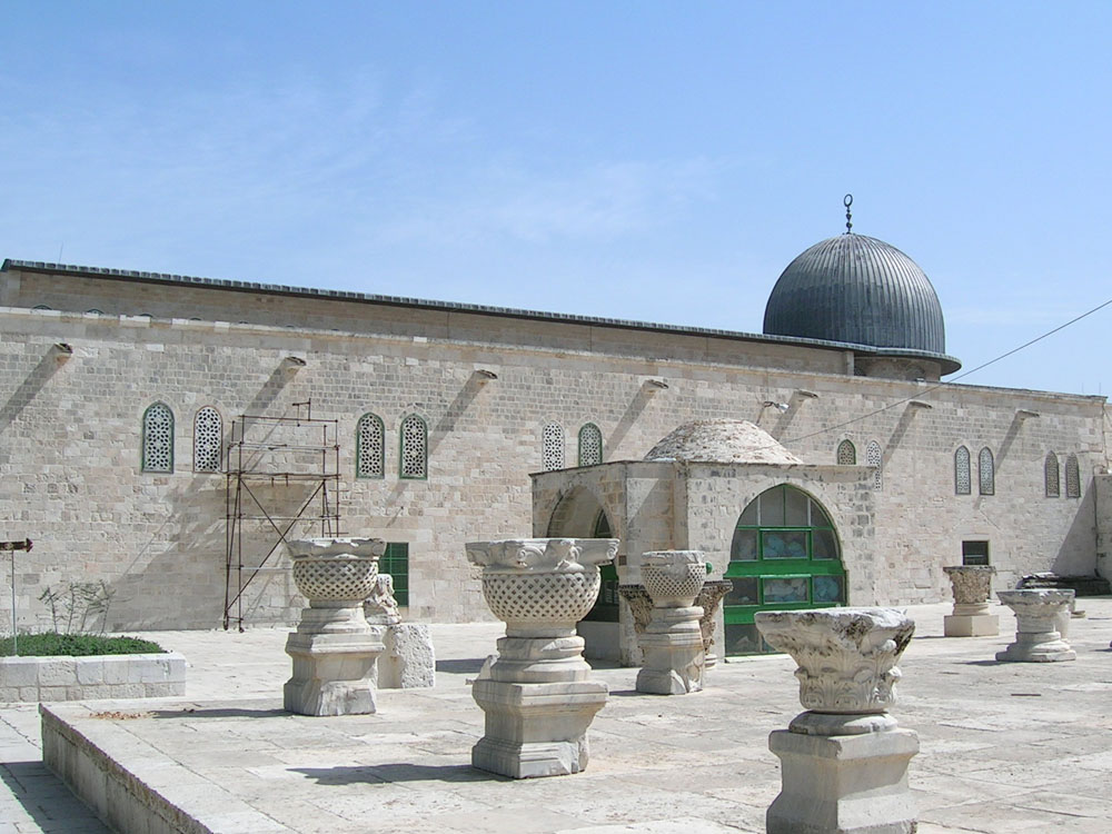 Old City of Jerusalem - Al-Aqsa Mosque